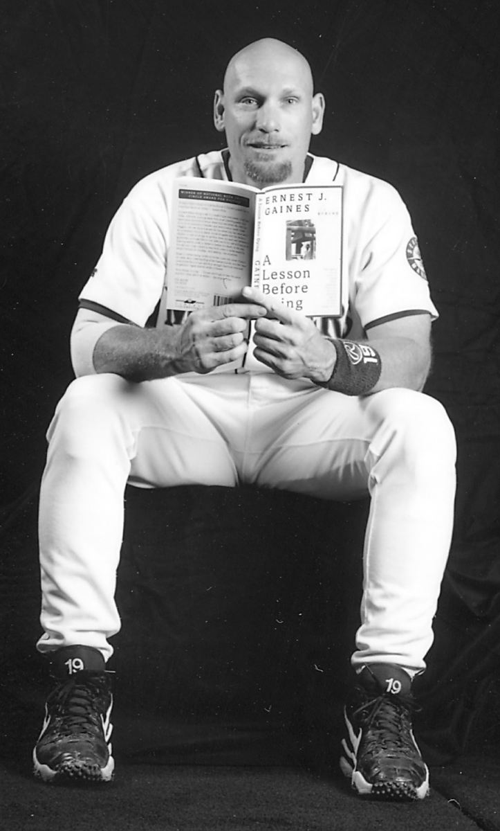 The Mariners outfielder was posing for the library's "If All of Seattle Read the Same Book" program. Item 100233, Fleets and Facilities Department Imagebank Collection (Record Series 0207-01), Seattle Municipal Archives.